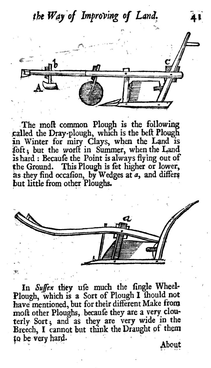 The whole Art of Husbandry, 1707 p. 41